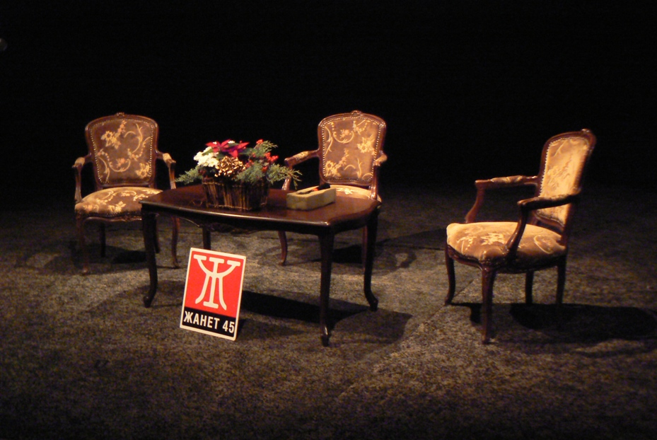 On the bestowal of the "Ivan Nikolov" Poetry Prize in the National Theater, Sofia, 22 December 2010